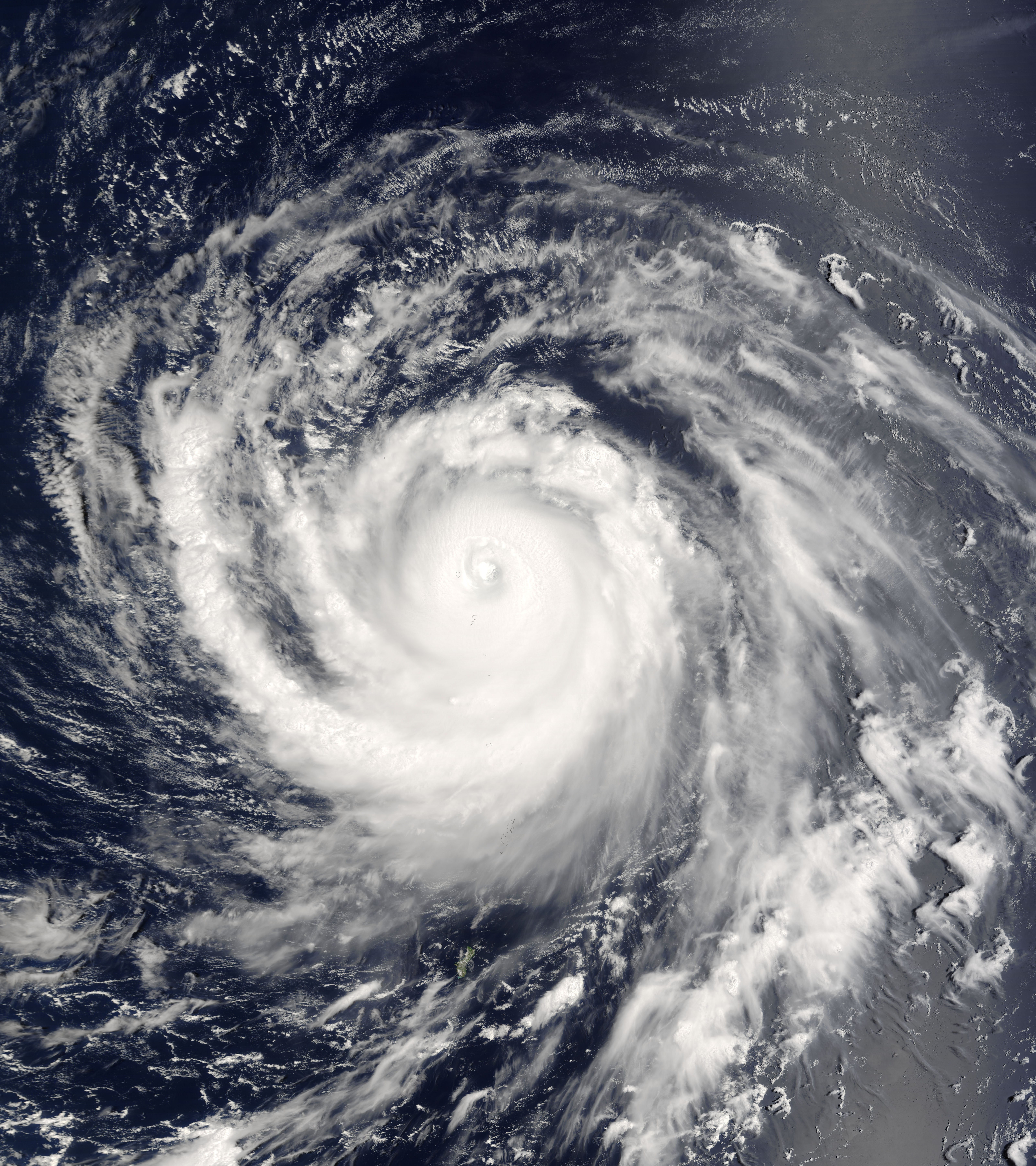 The Moderate Resolution Imaging Spectroradiometer (MODIS) aboard NASA’s Terra satellite captured this true-color image of Typhoon Songda on September 1, 2004, at 00:40 UTC. At the time this image was taken Songda was located approximately 740 km (460 miles) southeast of Iwo Jima, Japan and was moving towards the northwest at 28 km/hr (17 mph). Maximum sustained winds were near 232 km/hr (144 mph) with higher gusts to 278 km/hr (173 mph).